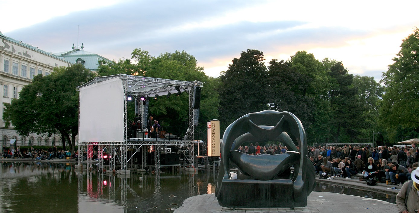 Son Of A Velvet Rat - Popfest Wien 2011